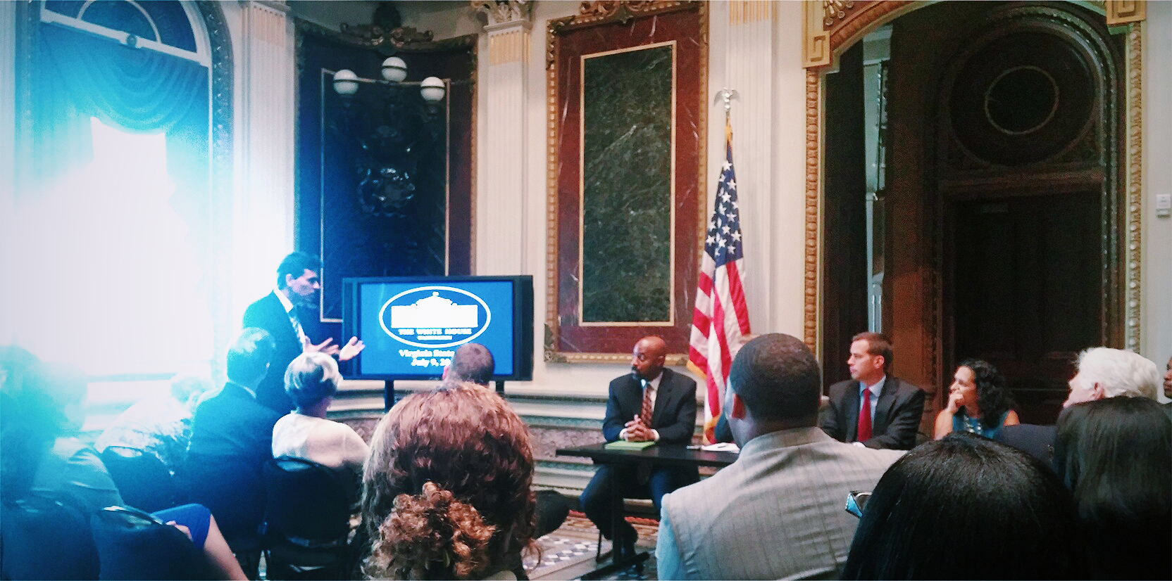 Andres Useche speaks at the White House in support of Immigrant Rights, DACA, and Immigration Reform.